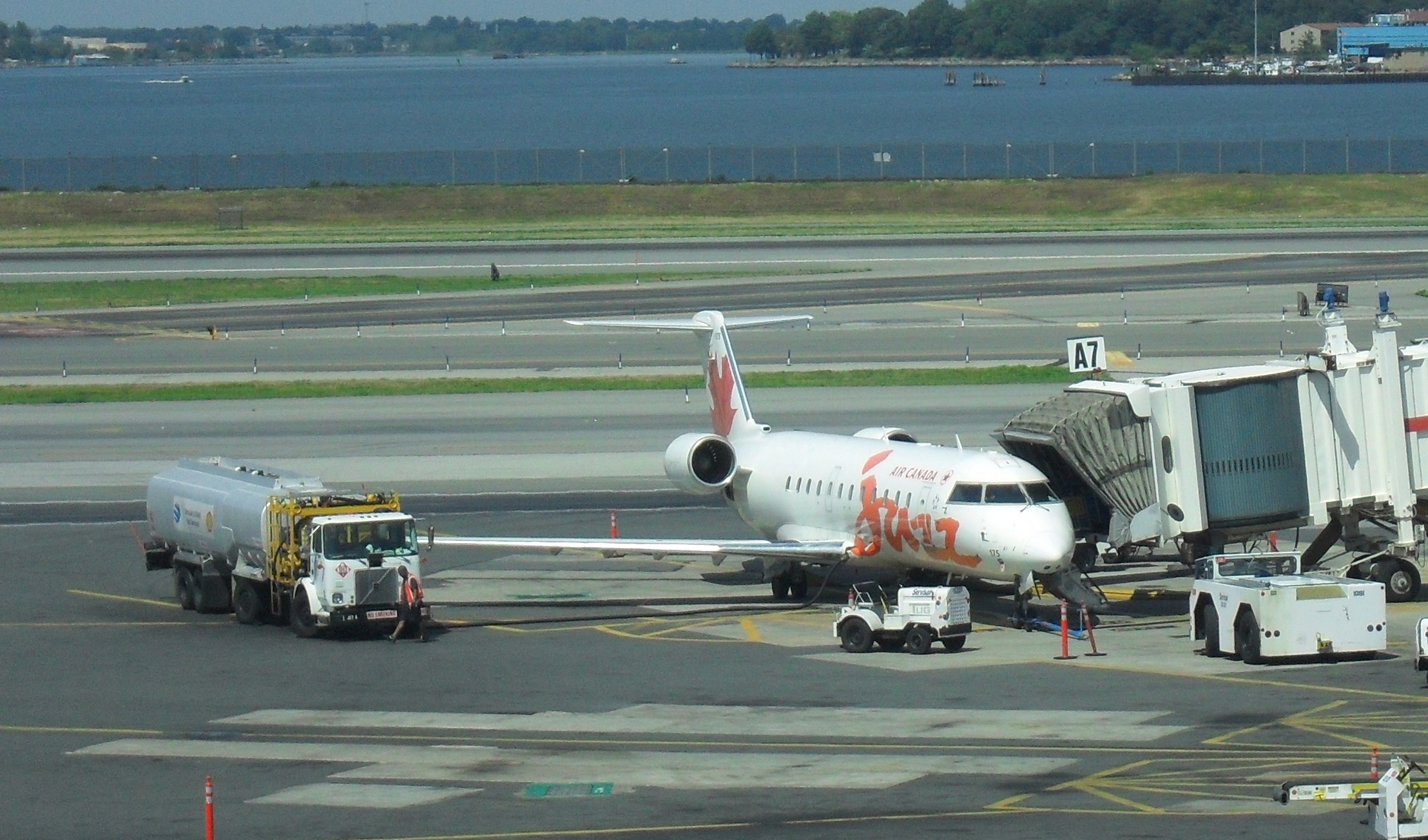 Air Canada Jazz CRJ200 at New York LGA